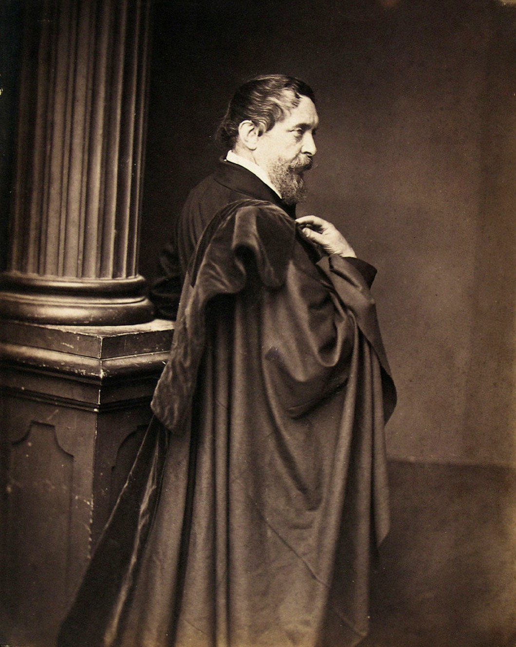 Salted paper print of Lajos Kossuth